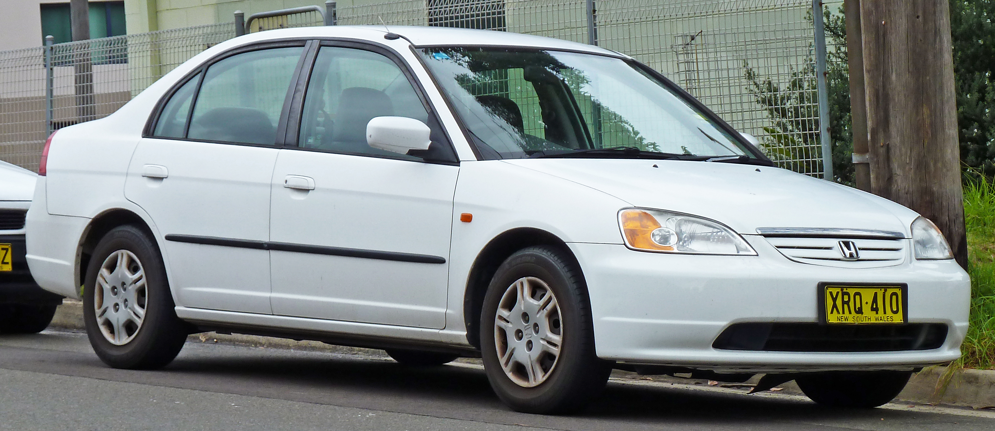 2001 Honda Civic GLi sedan. Photographed in Cronulla, New South Wales, Australia.